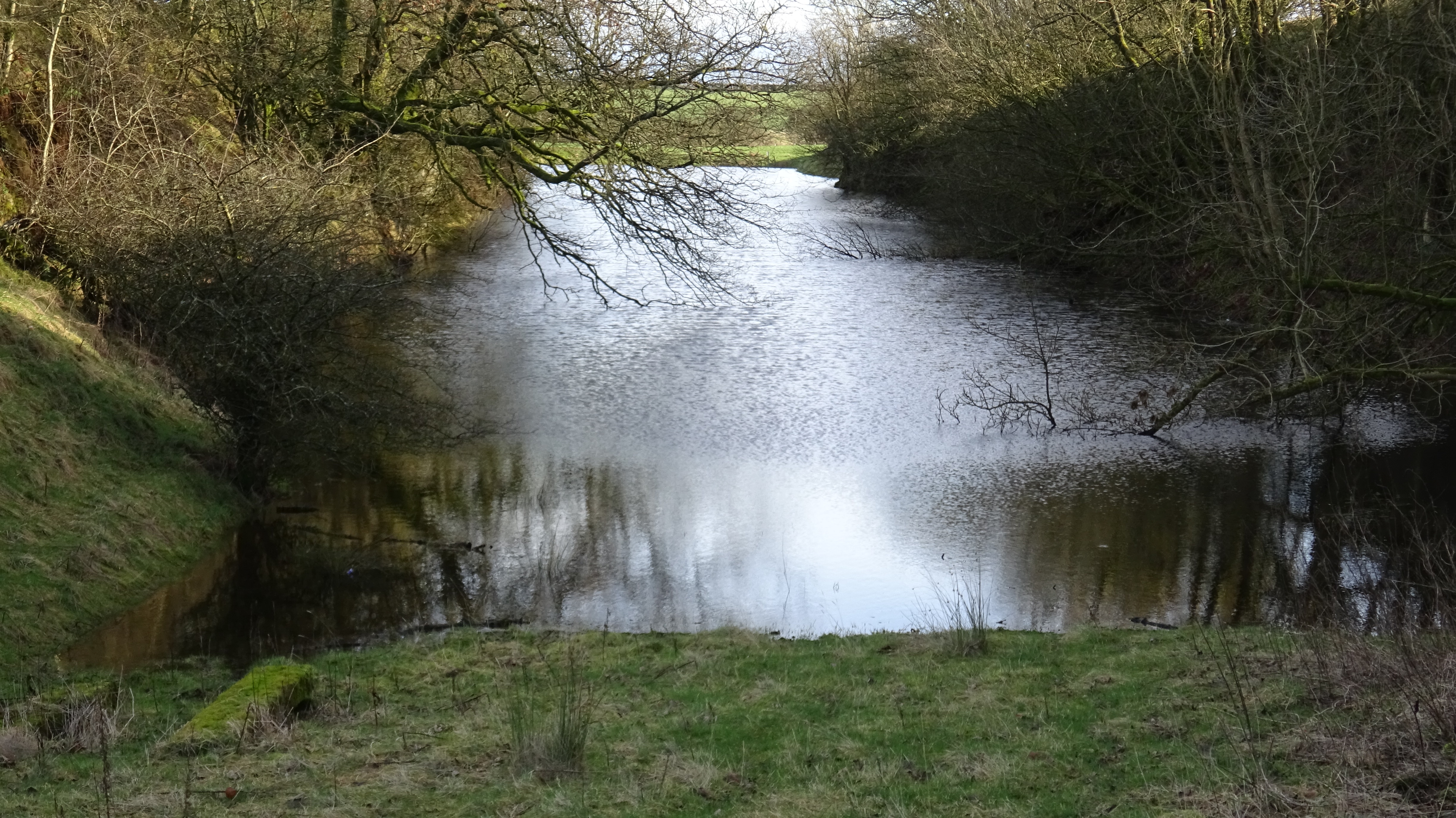 Mains Quarry flooded, Dunlop, East Ayrshire, Scotland. An old whinstone quarry with a link by tramway in 1909 to the nearby railway.